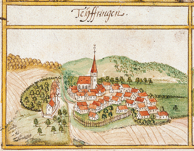 View of Deufringen, Aidlingen, from the forest register books created by Andreas Kieser